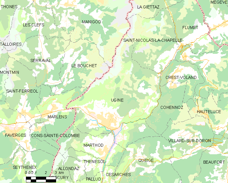 Map of French municipality Ugine